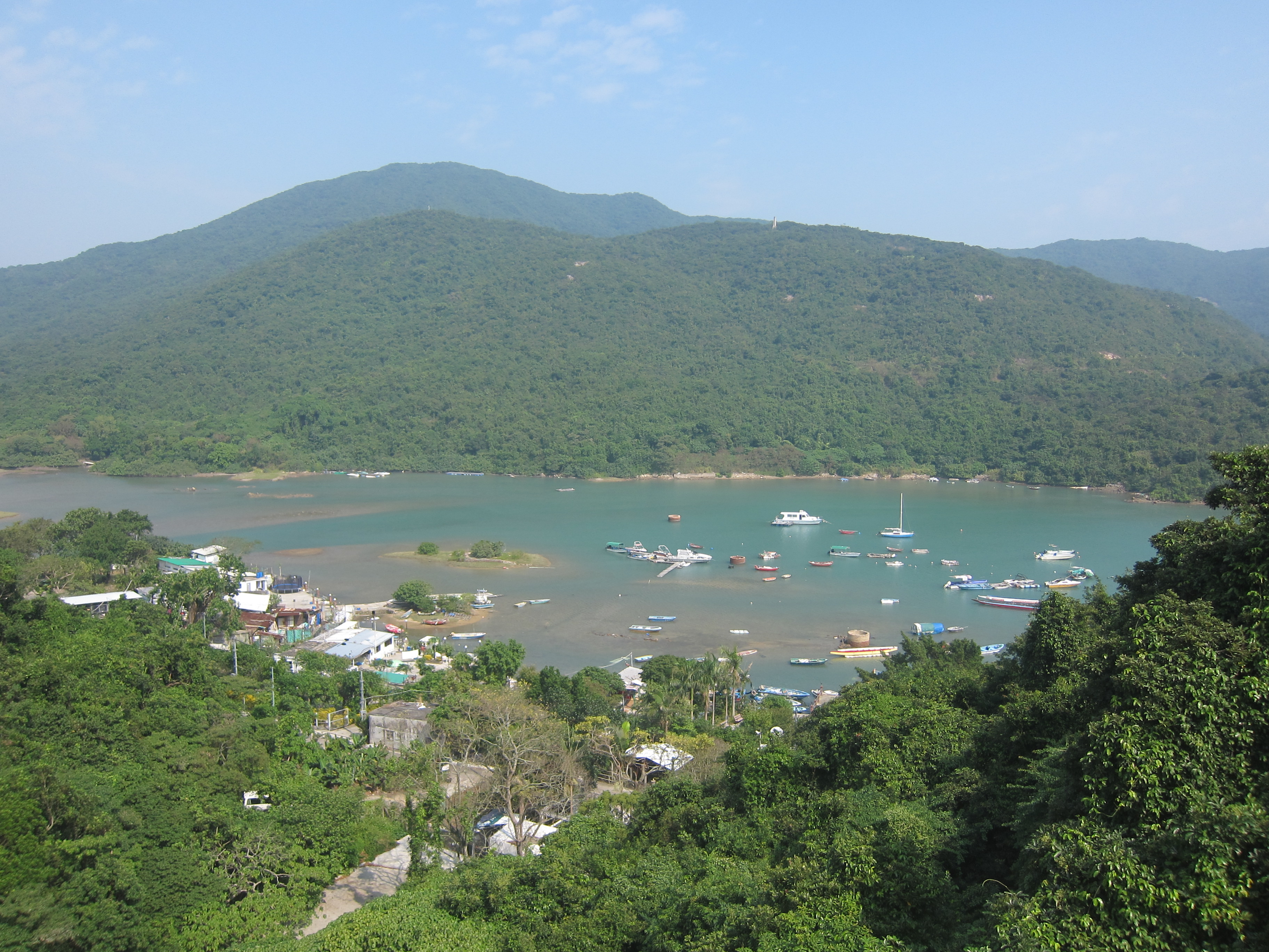 Tai Tam Harbour in Southern District (Hong Kong)